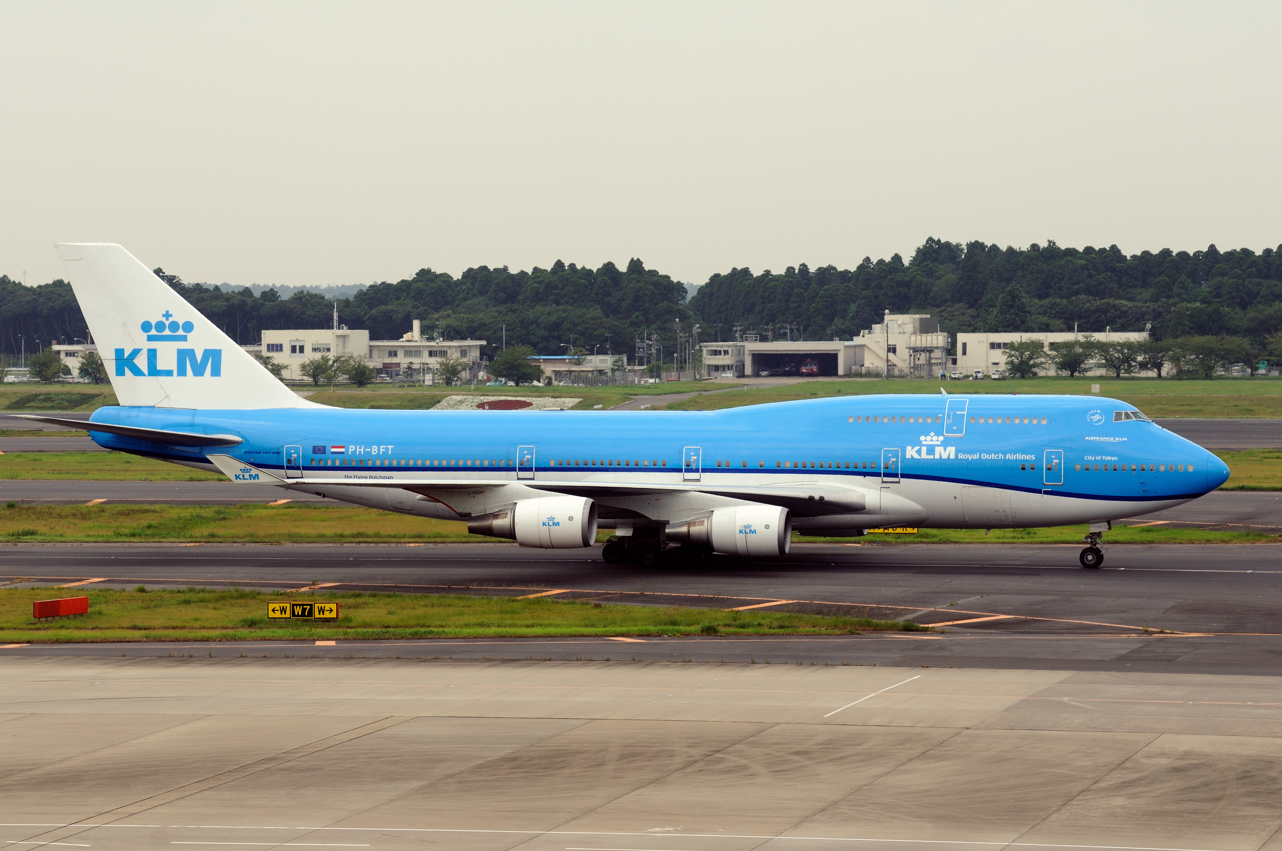 KLM Royal Dutch Airlines Boeing 747-406(M) (PH-BFT/28459/1112)